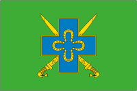 Staromyshastovskoe (Krasnodar krai), flag